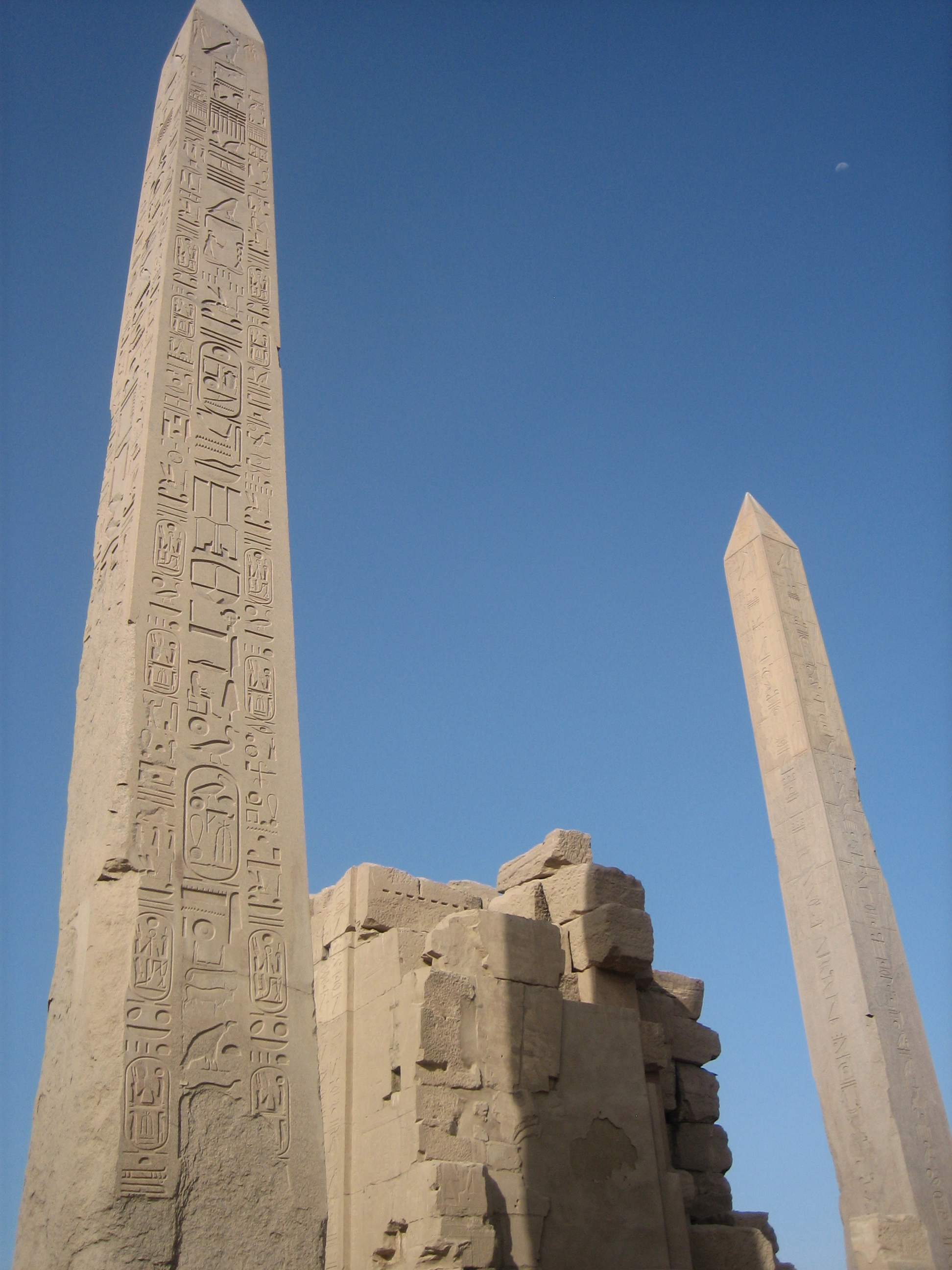 The Karnak temple complex